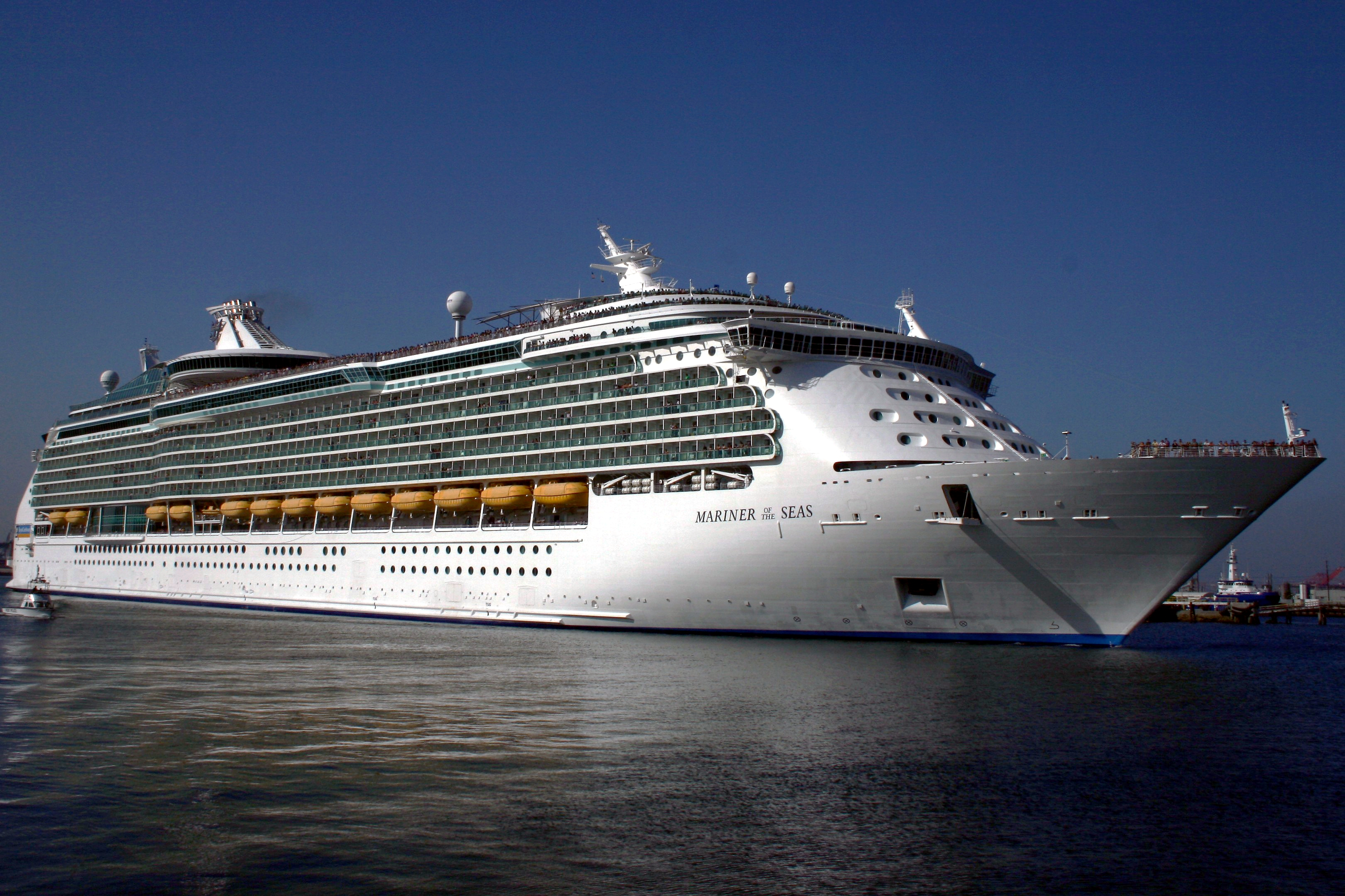 ( RCCL ) Royal Caribbean Cruise Line Mariner of the Seas Departure San Pedro Harbor for one week long Mexican Riviera Cruise